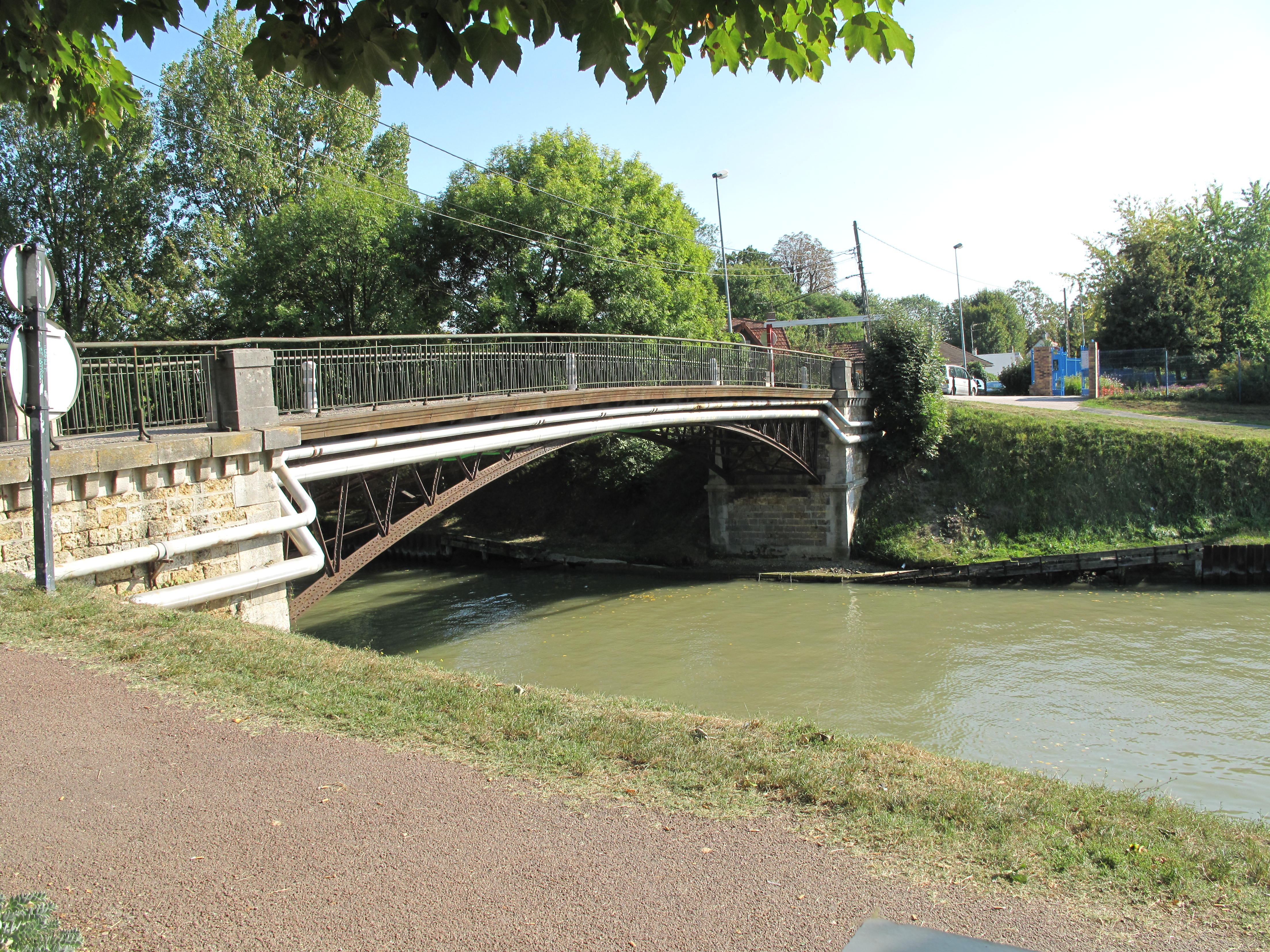 The bridge over the canal in Chelles, Seine-et-Marne, France